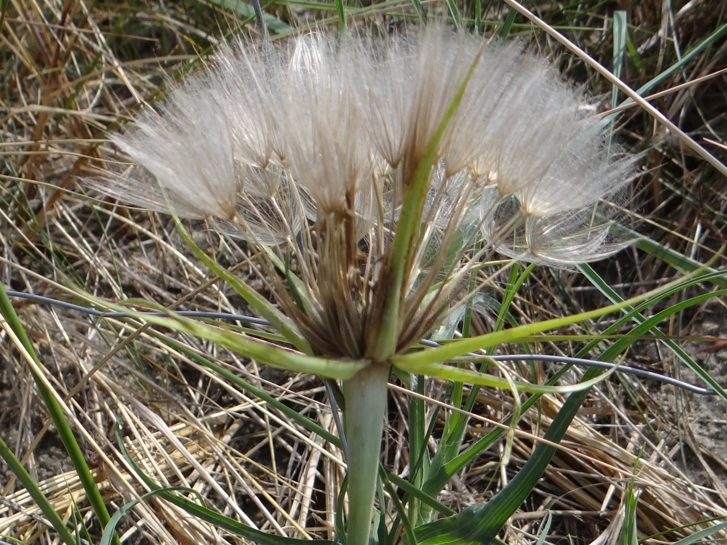 Tragopogon dubius (location: Poland, Hel, cypel, wydmy)